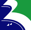 Logo of the city of Ranchos Palos Verdes, California